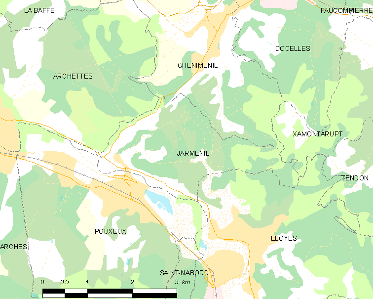 Map of French municipality Jarménil